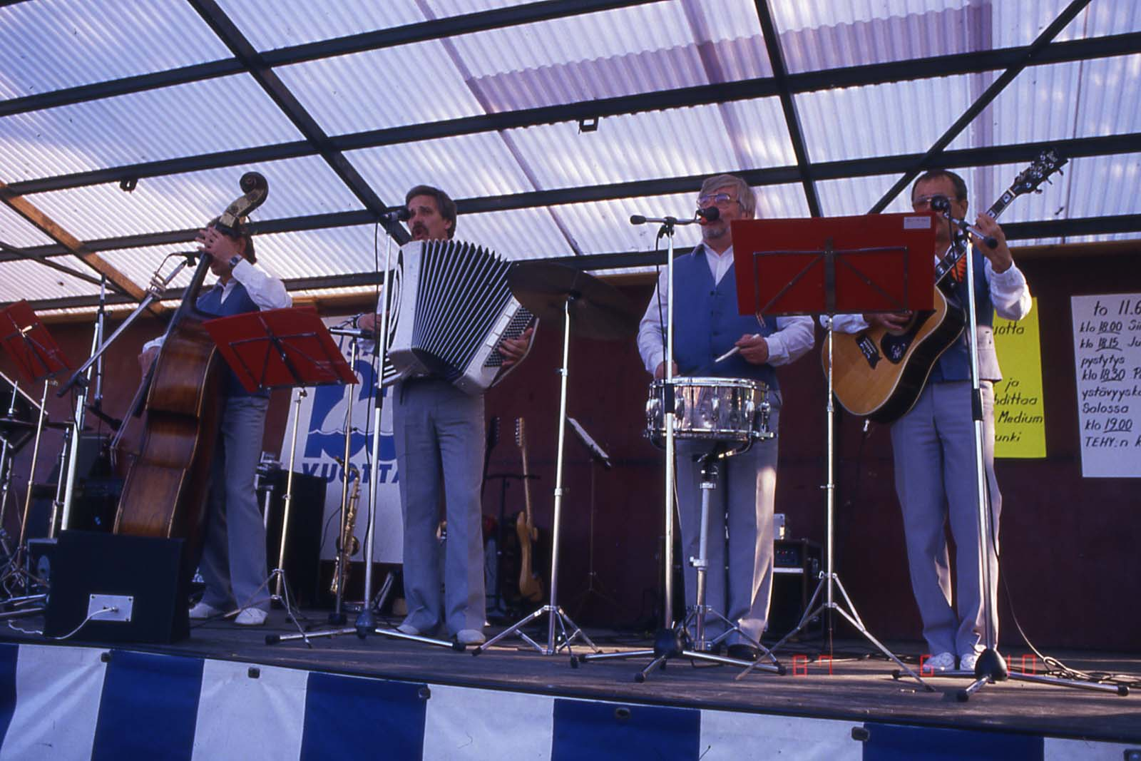 Songilo group from Finland